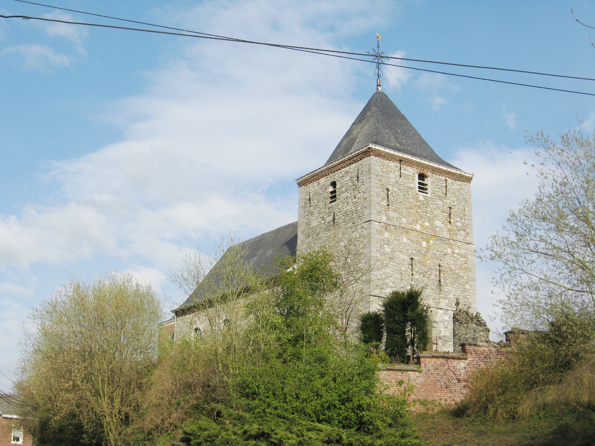 Church of Saint Hubert in Lens-sur-Geer, Oreye, Liège, Belgium